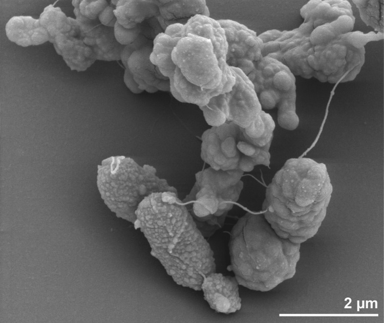 Scanning electron micrograph of D. thermolithotrophum BSAT